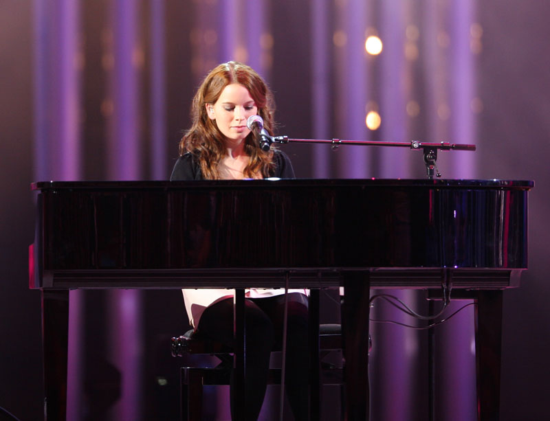 Nobel Peace prize Concert 2008, Oslo Spektrum, Marit Larsen